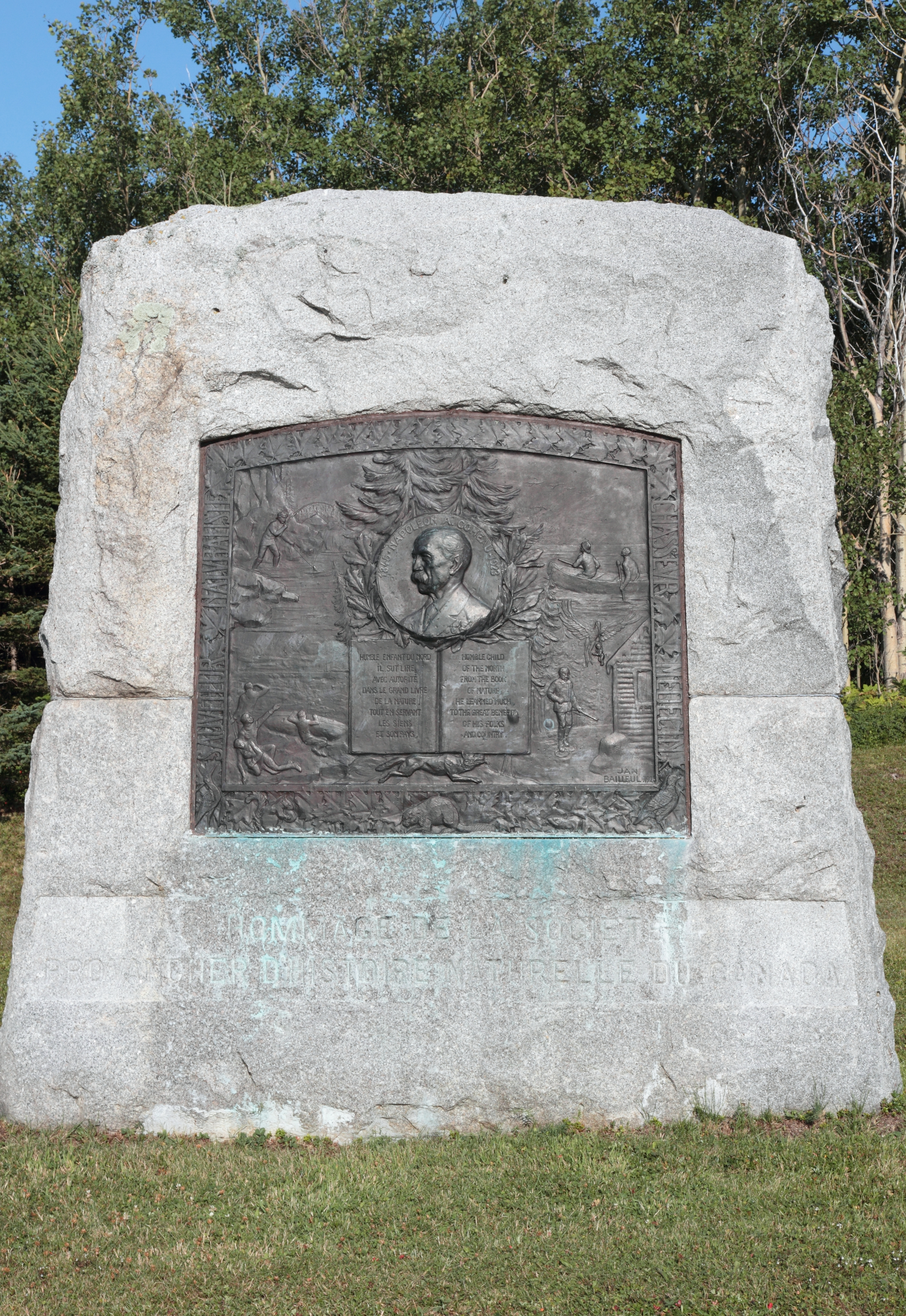 Stele raised in 1925 on the site where was built the house of Napoléon-Alexandre Comeau, Godbout, Quebec, Canada